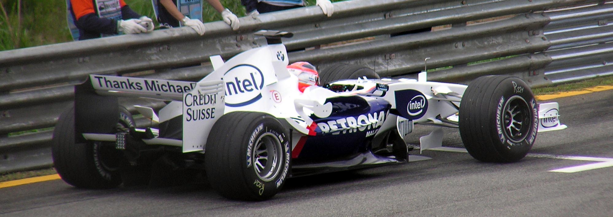 Thanks Michael: A message from BMW Sauber to Michael Schumacher.